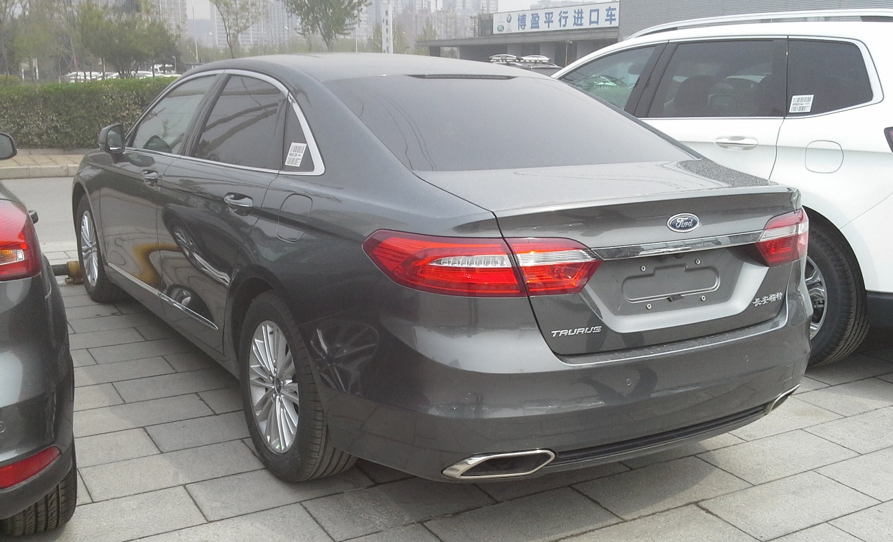 Ford Taurus CN photographed in Beijing, China.